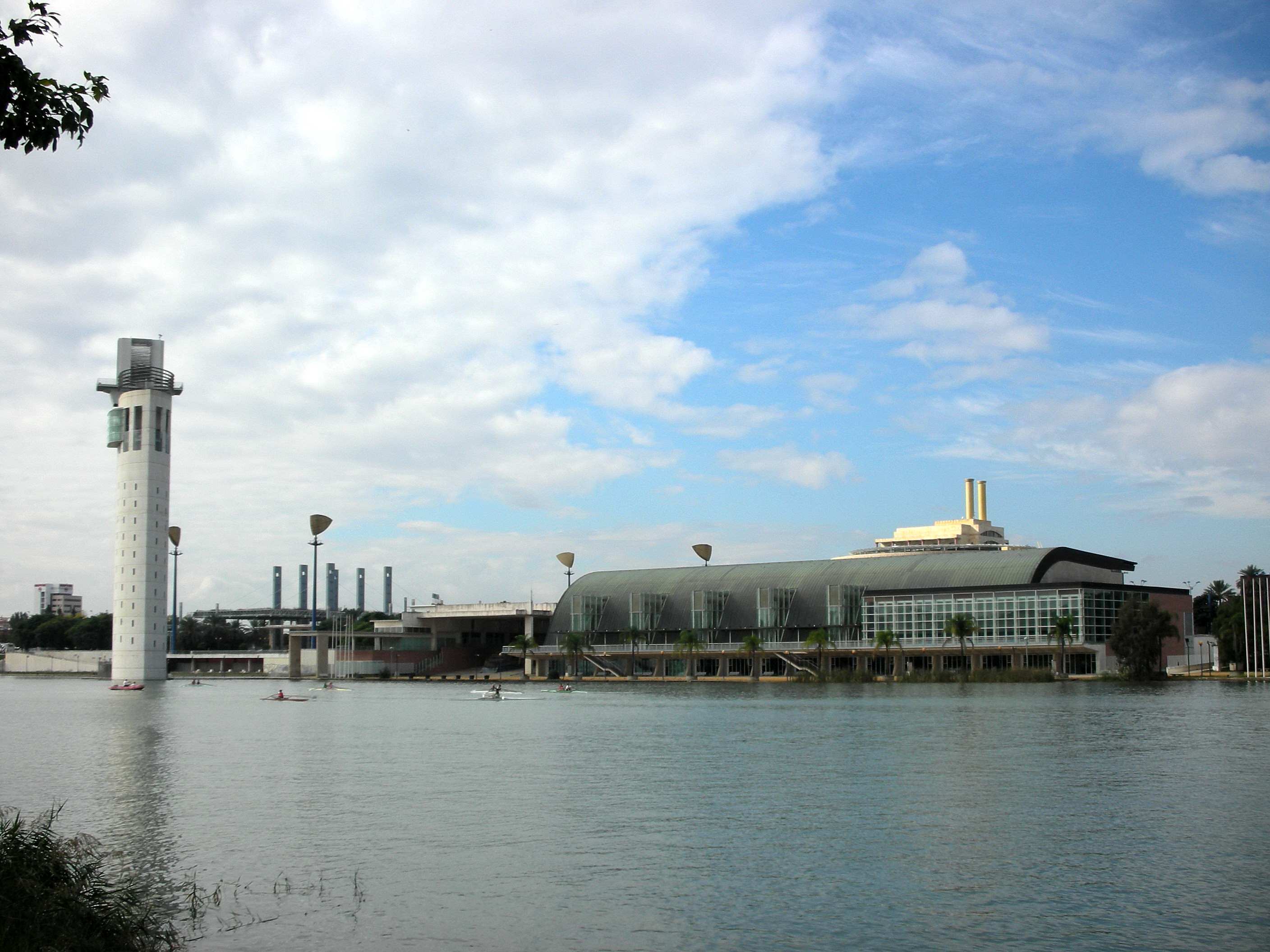 Navigation Pavilion, Seville, Spain